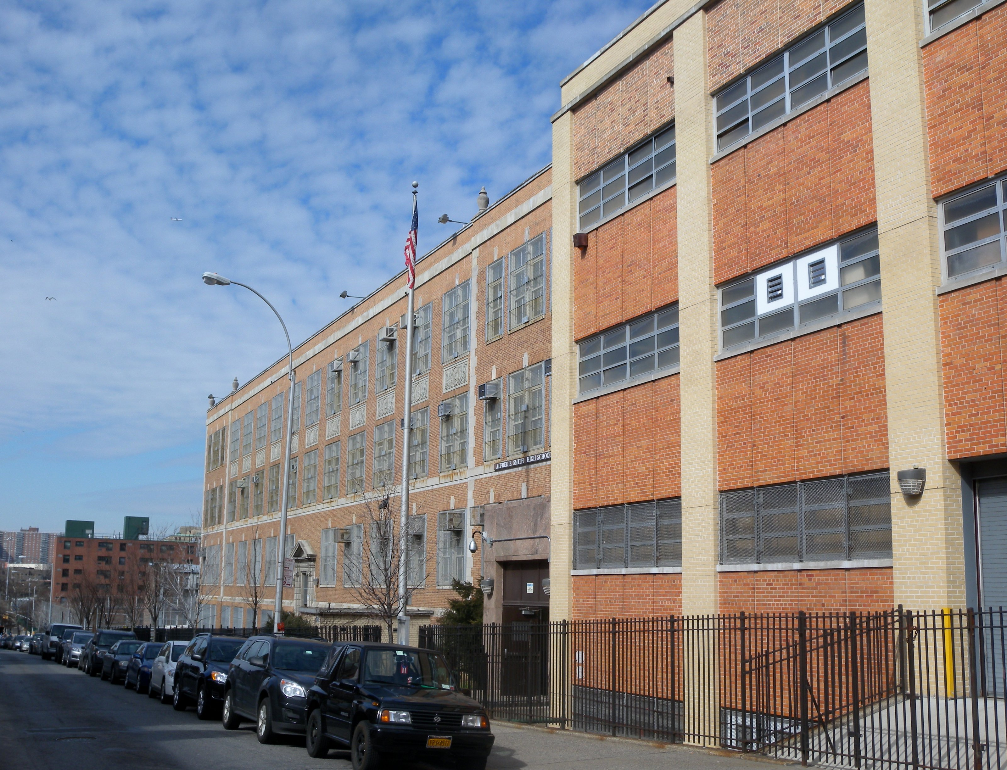 Looking north across 151st Street at Smith High School on a sunny midday.